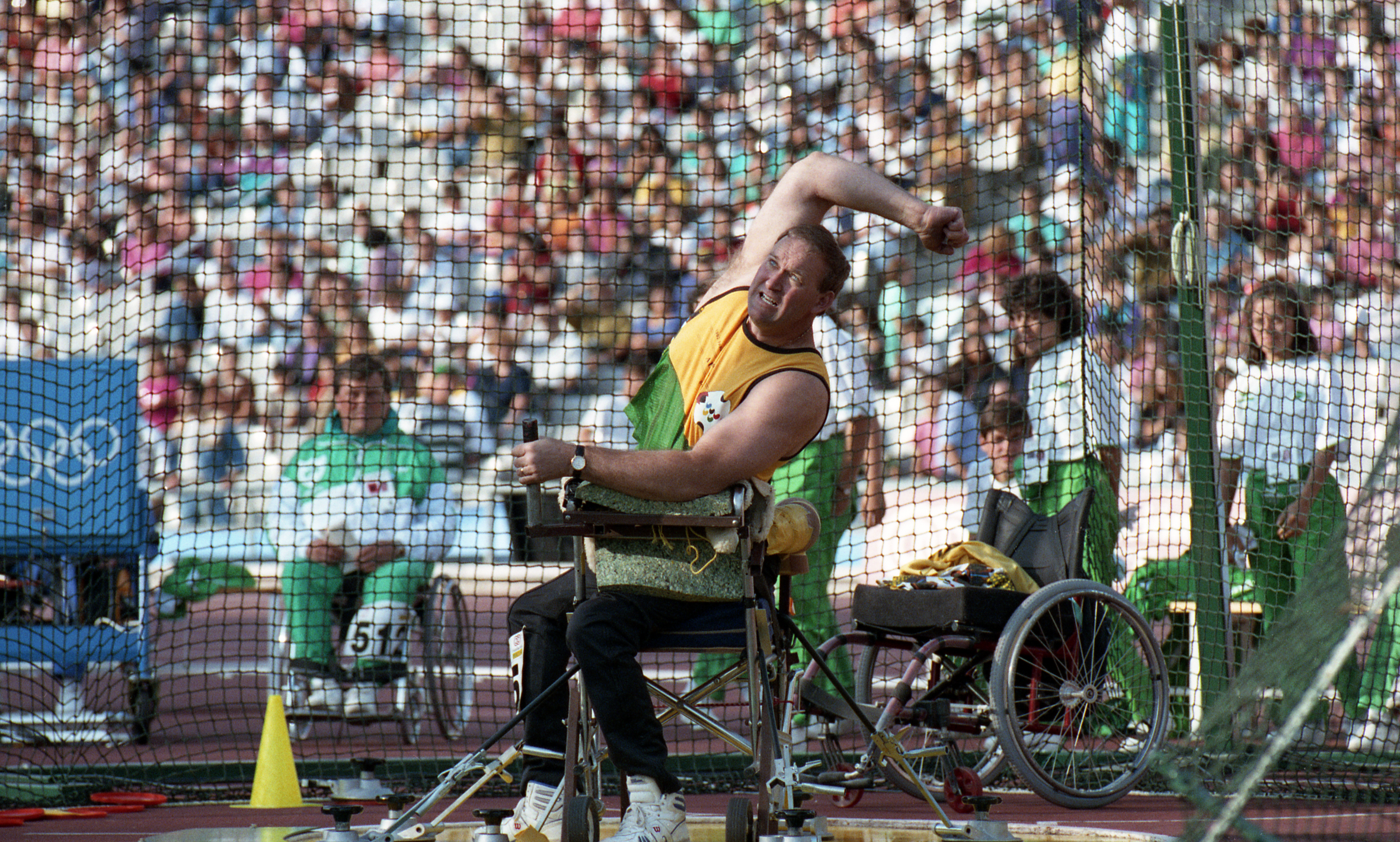 Bruce Wallrodt, Australian discus thrower, in action during the 1992 Paralympic Games in Barcelona.